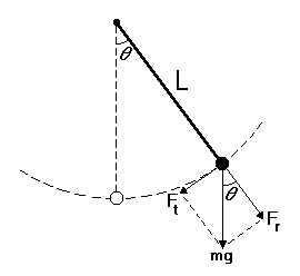 Lavjerresi matematik